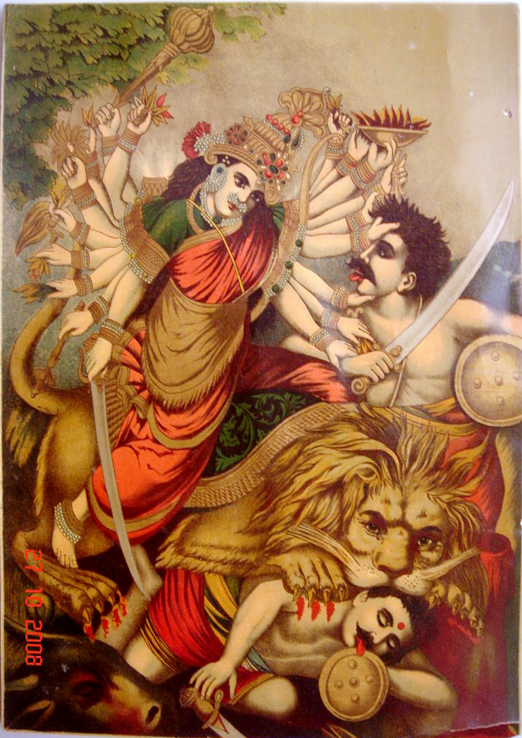 Durga Mahishasura-mardini, the slayer of the buffalo demon.